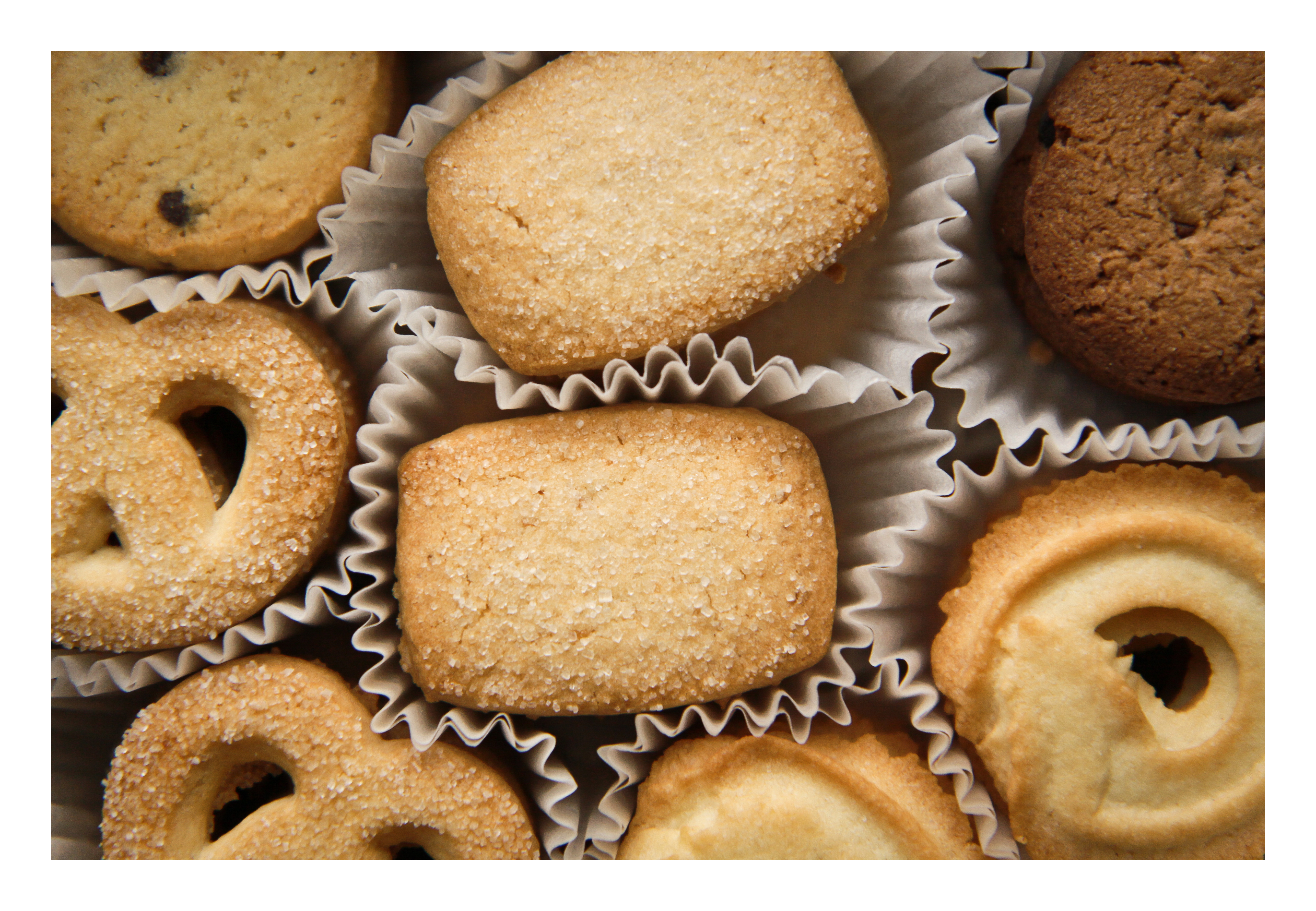 Danish butter cookies in container with wrappers. Christmas spirit finally got to me..